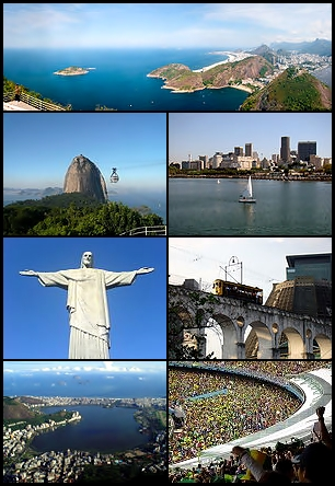 From upper left: Panorama of Rio de Janeiro, the Sugarloaf Mountain, the Downtown, Christ the Redeemer, the Arcos da Lapa, the Rodrigo de Freitas Lagoon and the Maracanã Stadium.